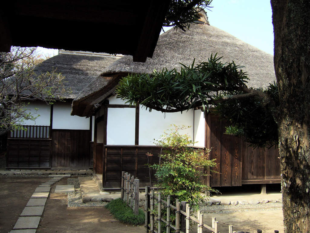 武家屋敷 (old samurai house) #1, (そんな英訳でいいのか？と思うけど… =D) Sakura